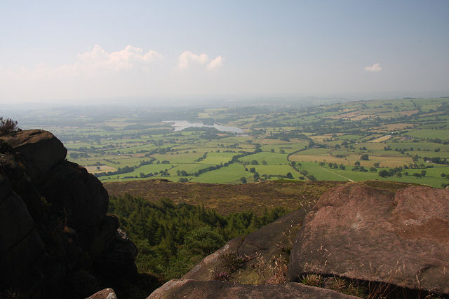 View from The Roaches Whilst all the darker foreground area is within the square, the Dane Valley and Tittesworth Reservoir beyond are not.